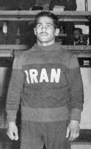 Freestyle Wrestling at the 1952 Summer Olympics 62 kg podium